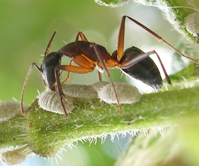 Ant tending scale insects. Bangalore, India, 2006 Photograph by L. Shyamal